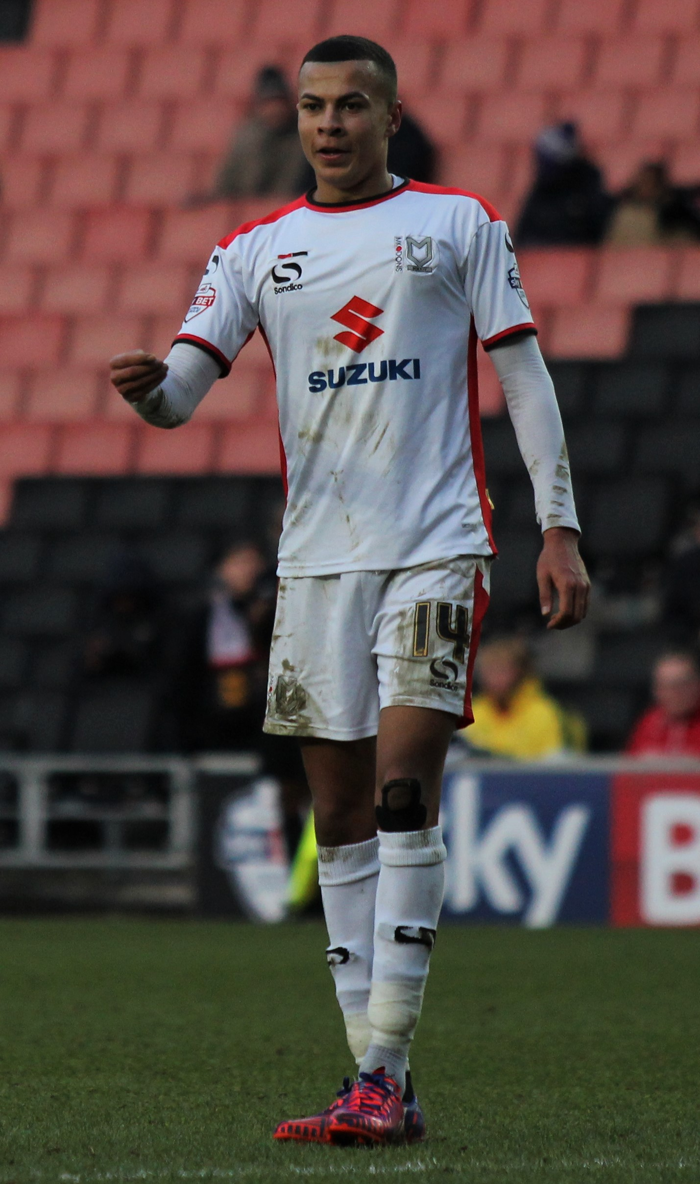 Dele Alli of MK Dons during the League 1 match against Barnsley